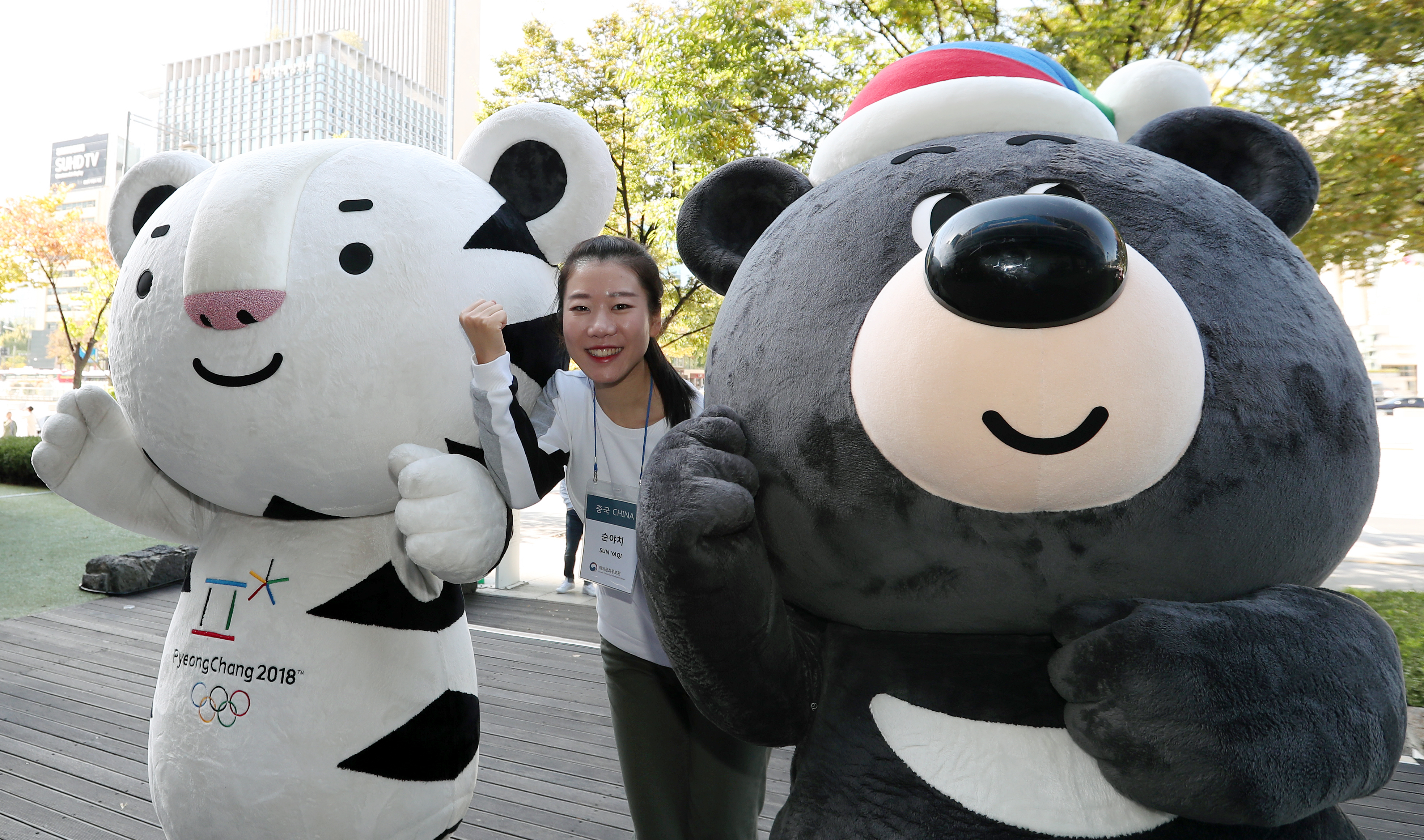 Honorary Reporters Tour in Seoul October 24. 2016 Seoul Ministry of Culture, Sports and Tourism Korean Culture and Information Service ( Official Photographer : Jeon Han This official Republic of Korea photograph is being made available only for publication by news organizations and/or for personal printing by the subject(s) of the photograph. The photograph may not be manipulated in any way. Also, it may not be used in any type of commercial, advertisement, product or promotion that in any way suggests approval or endorsement from the government of the Republic of Korea. 코리아넷 명예기자단 한국탐방 2016-10-24 서울 문화체육관광부 해외문화홍보원 코리아넷 전한